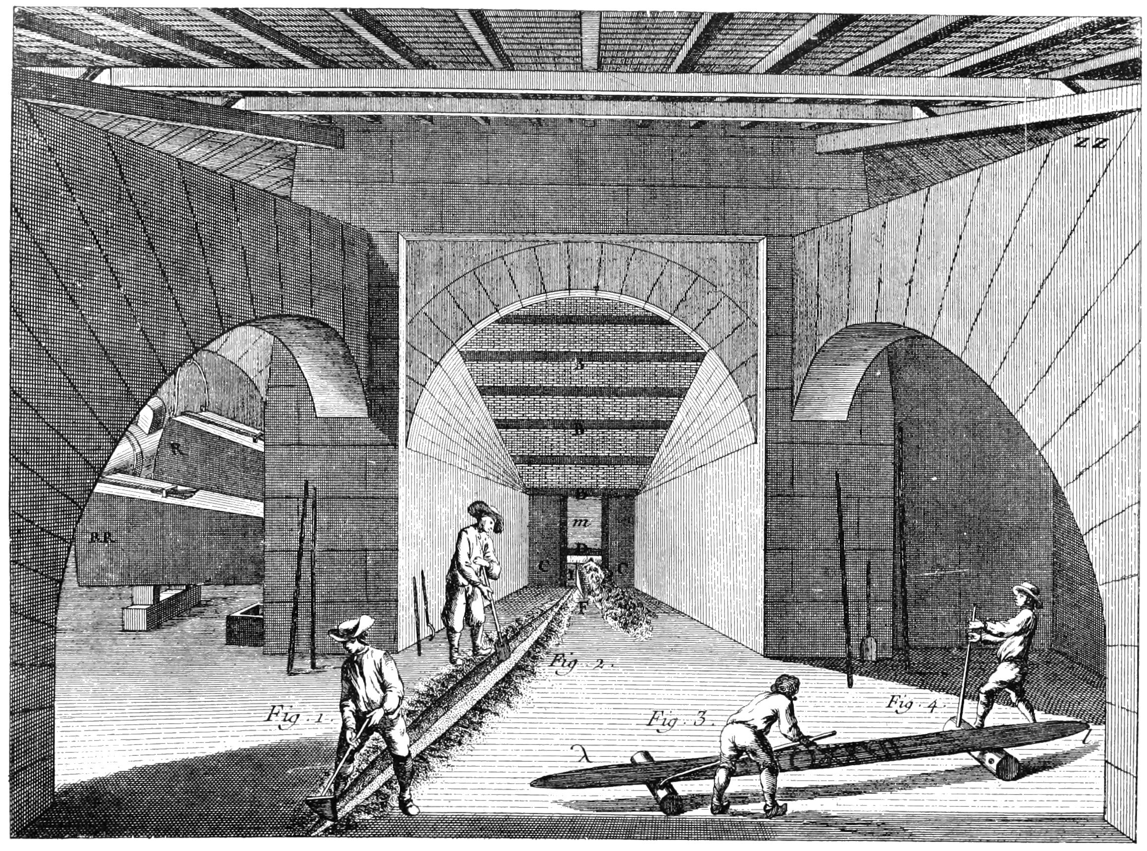 Preparing to cast a Sow.